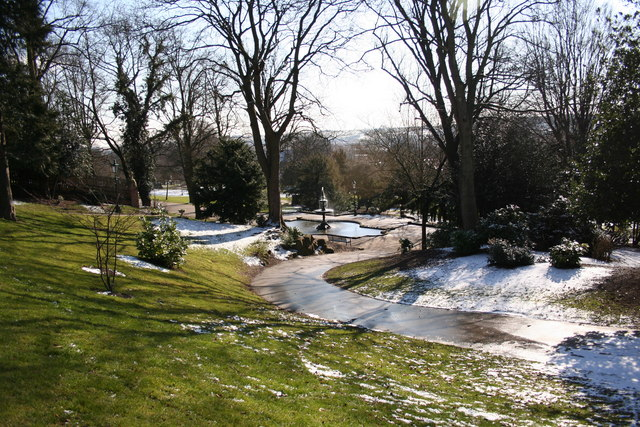 Arboretum. The arboretum was intended to provide a distraction for working men away from drinking in public houses and more towards recreation with their families. It was designed by Edward Milner in 1868 and opened in 1872 on the site of the old Monk's Leys. This view looking SE after a light dusiting of snow.